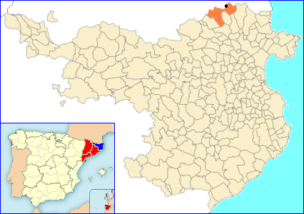 Locator map of the village of Els Límits (the black dot), shown in the municipality of La Jonquera (in orange), in the Province of Girona. In the corner it is a map of Spain divided into autonomous communities and provinces. The Province of Girona is shown in blue, the rest of Catalonia in red.